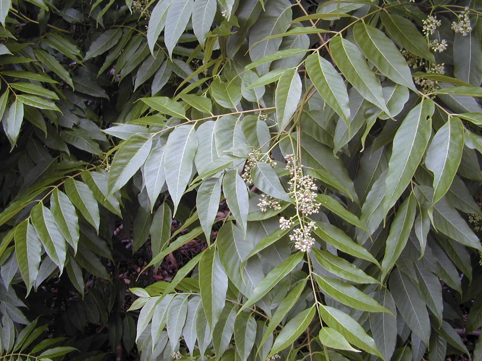 Toona ciliata (leaves and flowers). Location: Maui, Makawao Forest Reserve